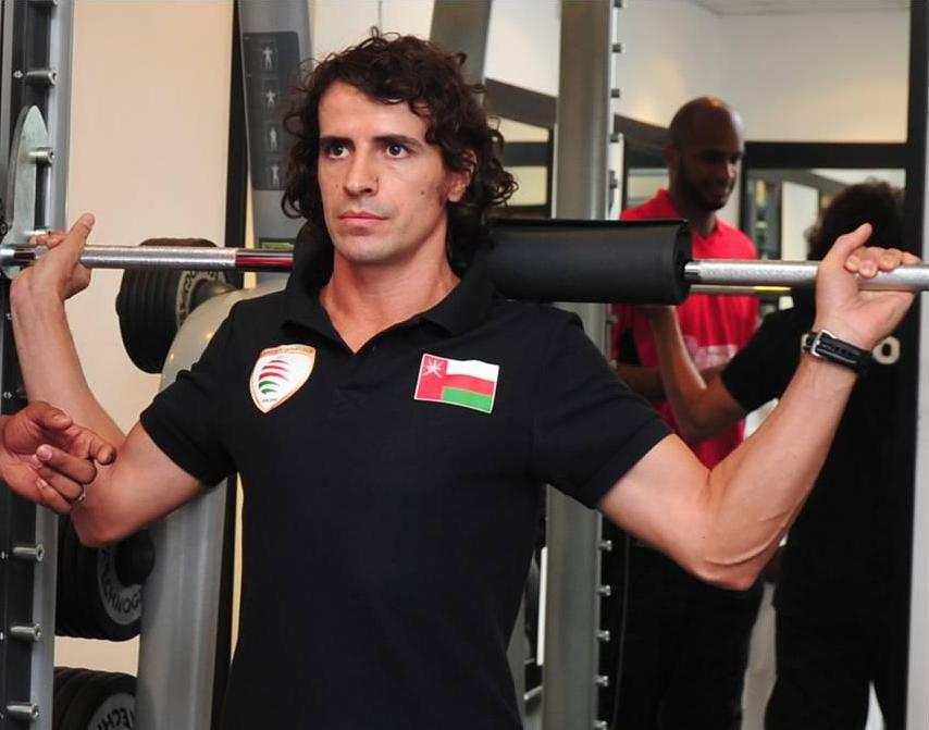 Ricardo Gomes da Silva in the OFA Performance Center. 11 June 2015 Seeb Sports Complex Photographer email id